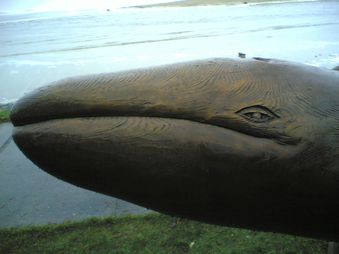 Taken at 11:18 AM on December 30, 2005; cameraphone upload by ShoZu